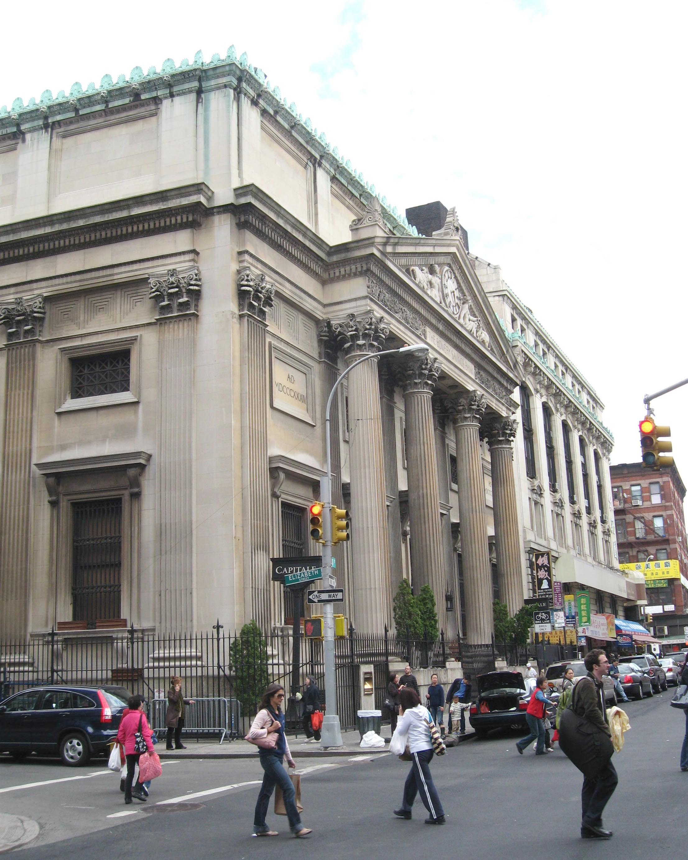 Looking northeast across Elizabeth and Grand Streets at Grand Street side of Bowery Savings Bank headquarters on a mostly cloudy midday